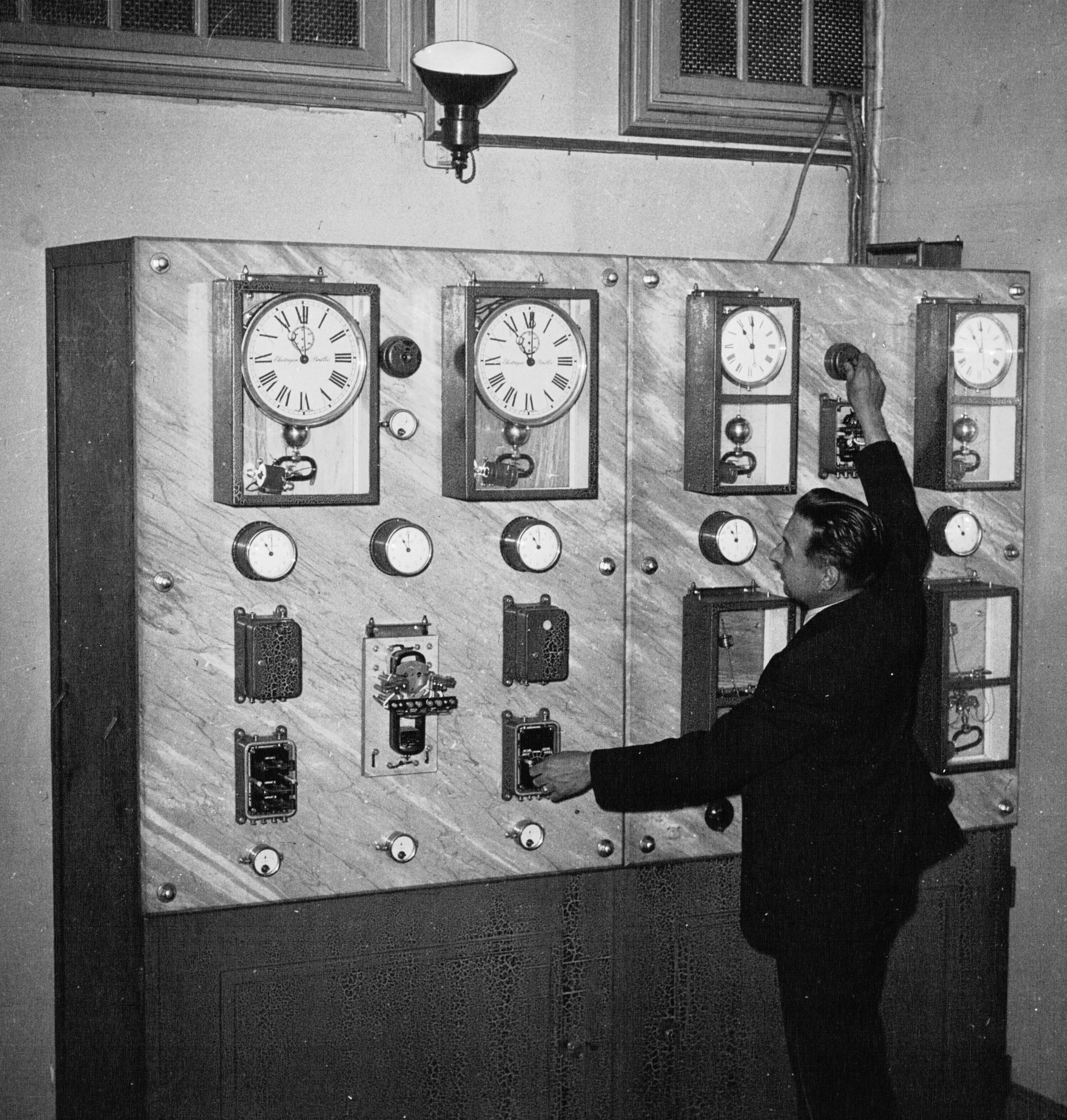 Switching to daylight saving time at the Gare Saint-Lazare in Paris in 1937.